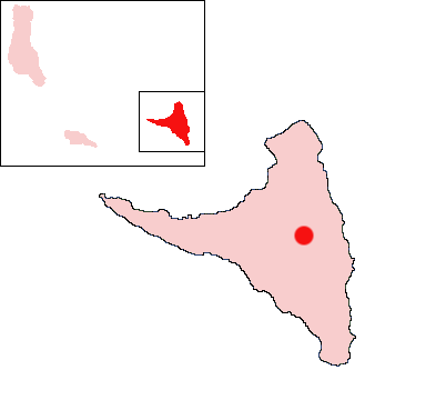 Tsimbeo, Anjouan, Comoros Location Map; created with the GIMP. Made by User:Acntx.